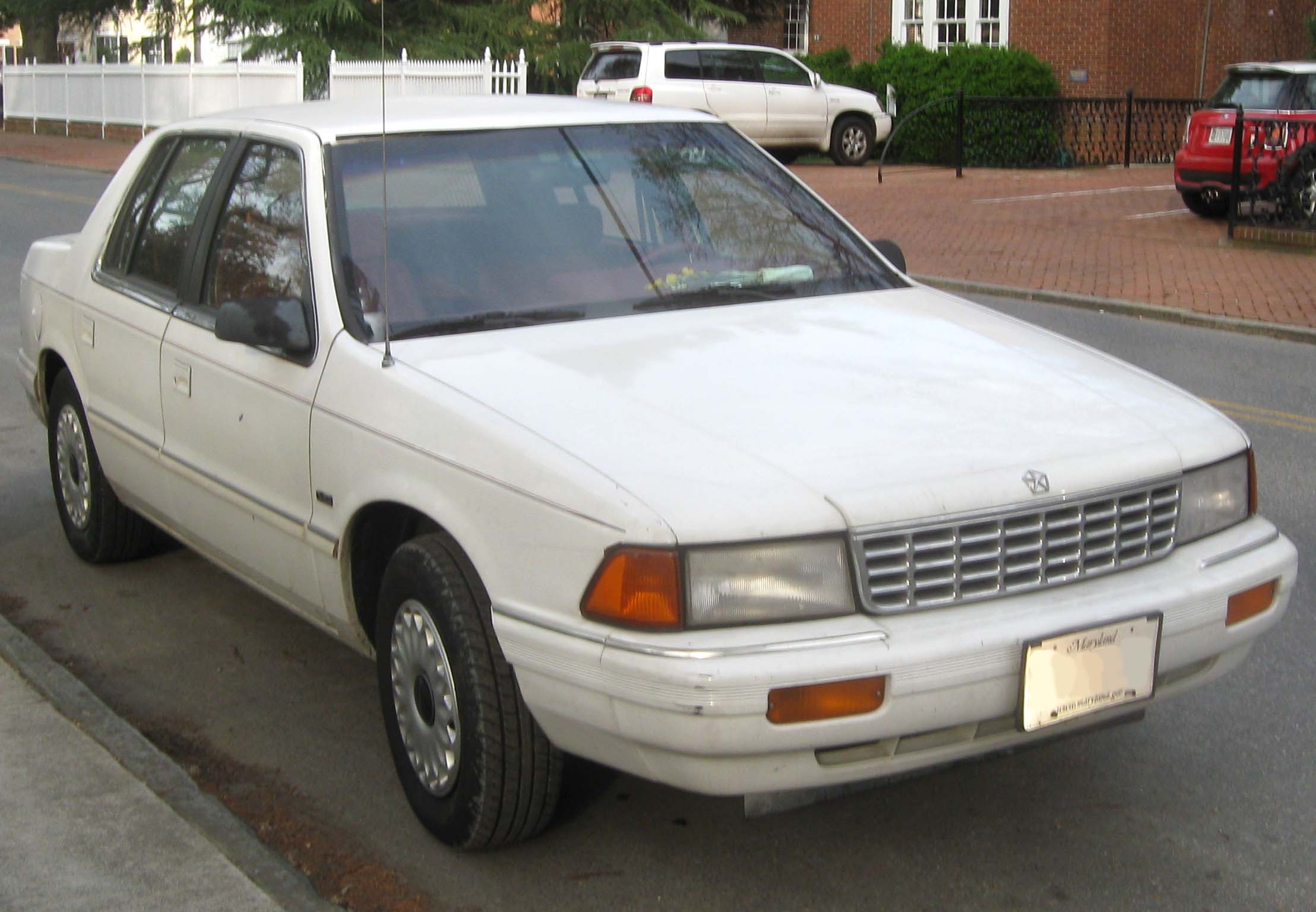 1993-1995 Plymouth Acclaim photographed in Annapolis, Maryland, USA.